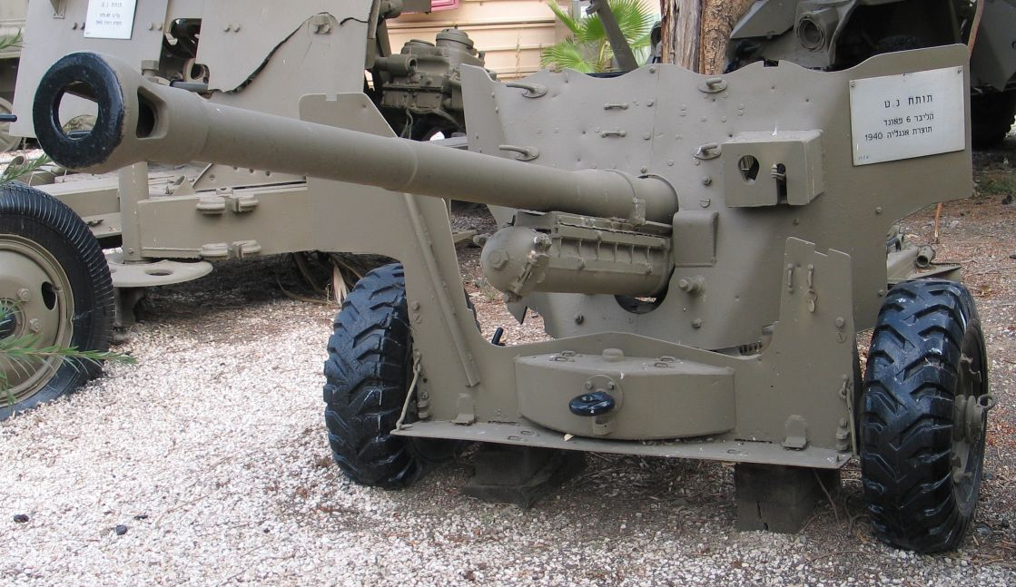 Description: Ordnance QF 6 pounder anti-tank gun in Batey ha-Osef museum, Tel Aviv, Israel. 2005. Source: Photo by me, User:Bukvoed.